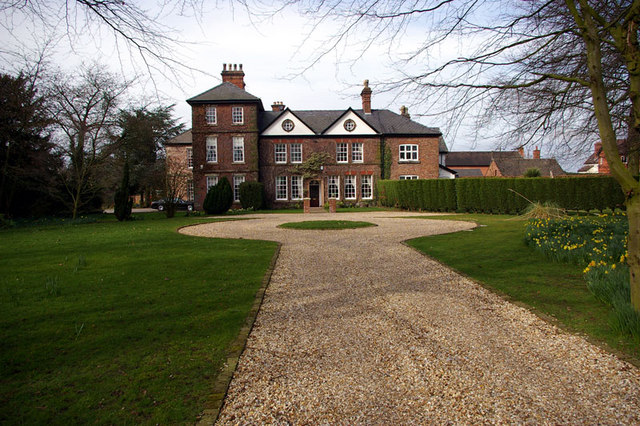 Heawood Hall The Gateway says Heawood House, an adjacent planning notice says Heawood Hall as does the OS mapping.